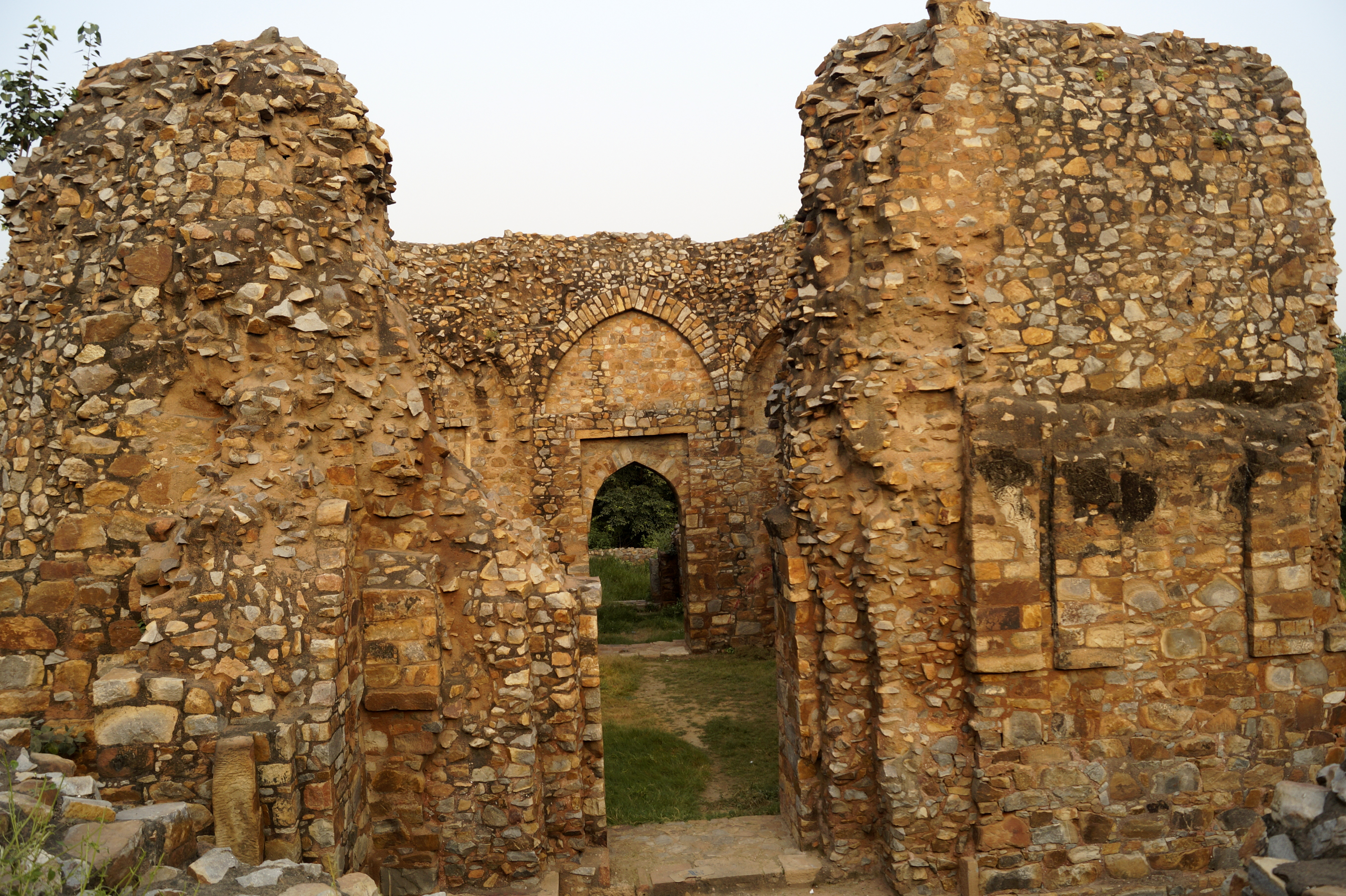 Tomb of Balban,Mehrauli Archaeological Park,New Delhi,India